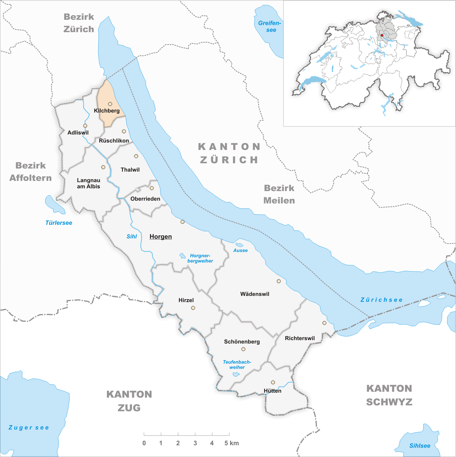 Municipality Kilchberg